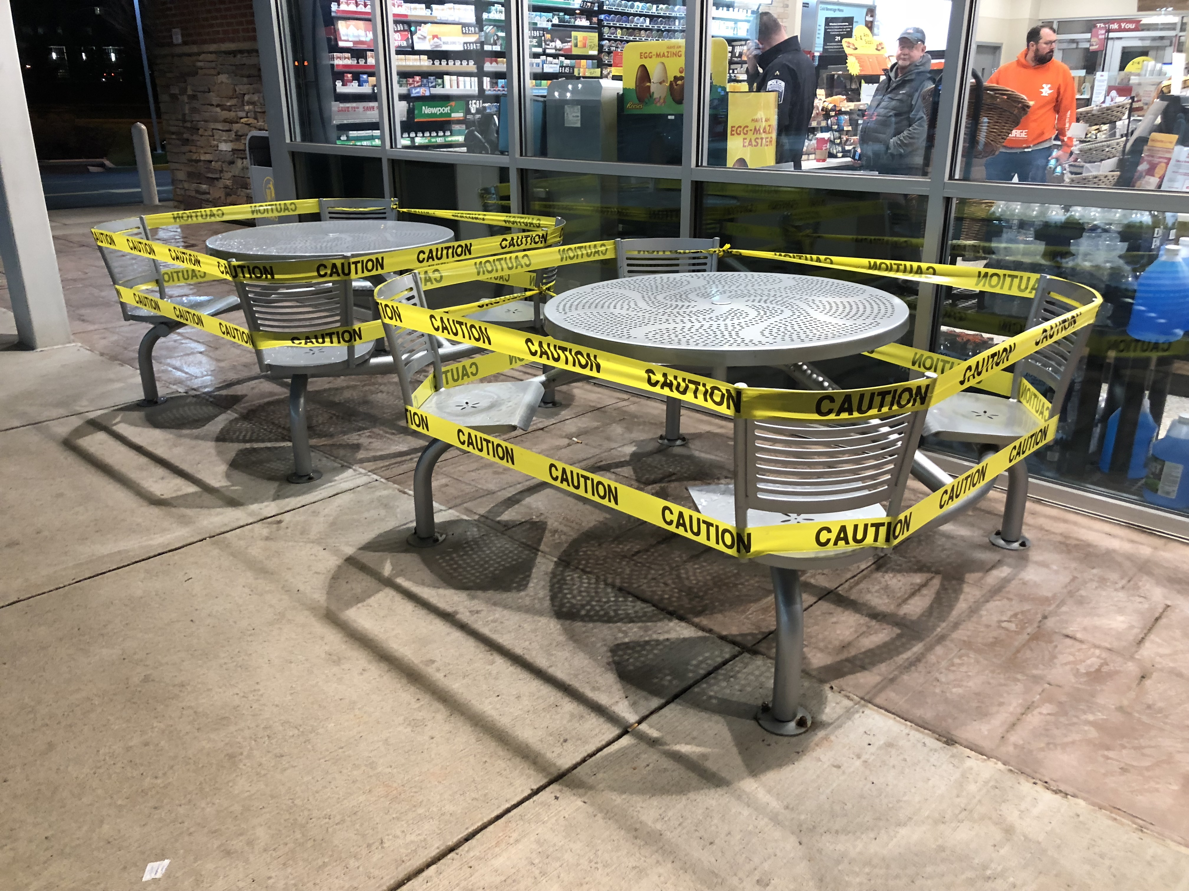 Tables with caution tape preventing use during the 2020 COVID-19 coronavirus pandemic in front of the Wawa at Dulles Discovery in Oak Hill, Fairfax County, Virginia